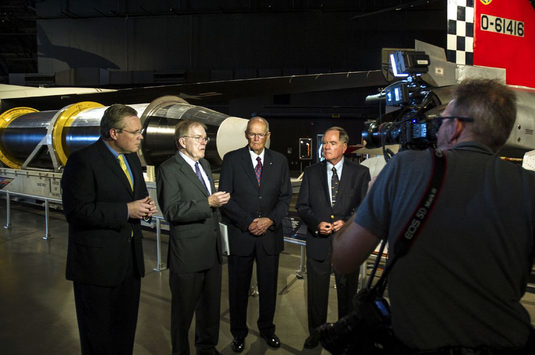 Reunion at the National Museum of the Air Force. NRO officials James Outzen and Robert MacDonald, and MOL astronauts Al Crews and Bob Crippen